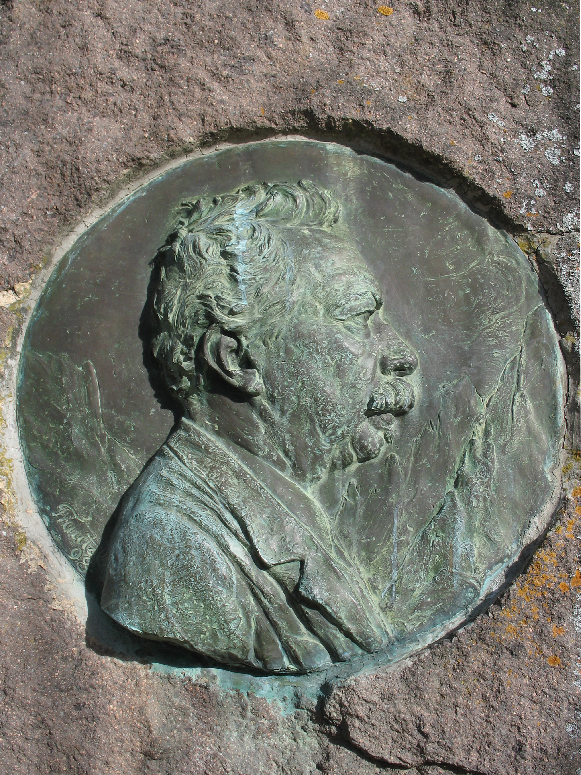 Portrait of Paul Grohmann by Julius Trautzl (1859 - 1958) native from Arco (Trentino) on his Monument in St. Ulrich in Val Gardena